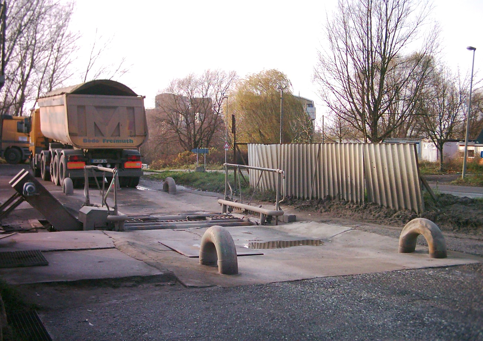 Truck tire wash, Hamburg, Germany.